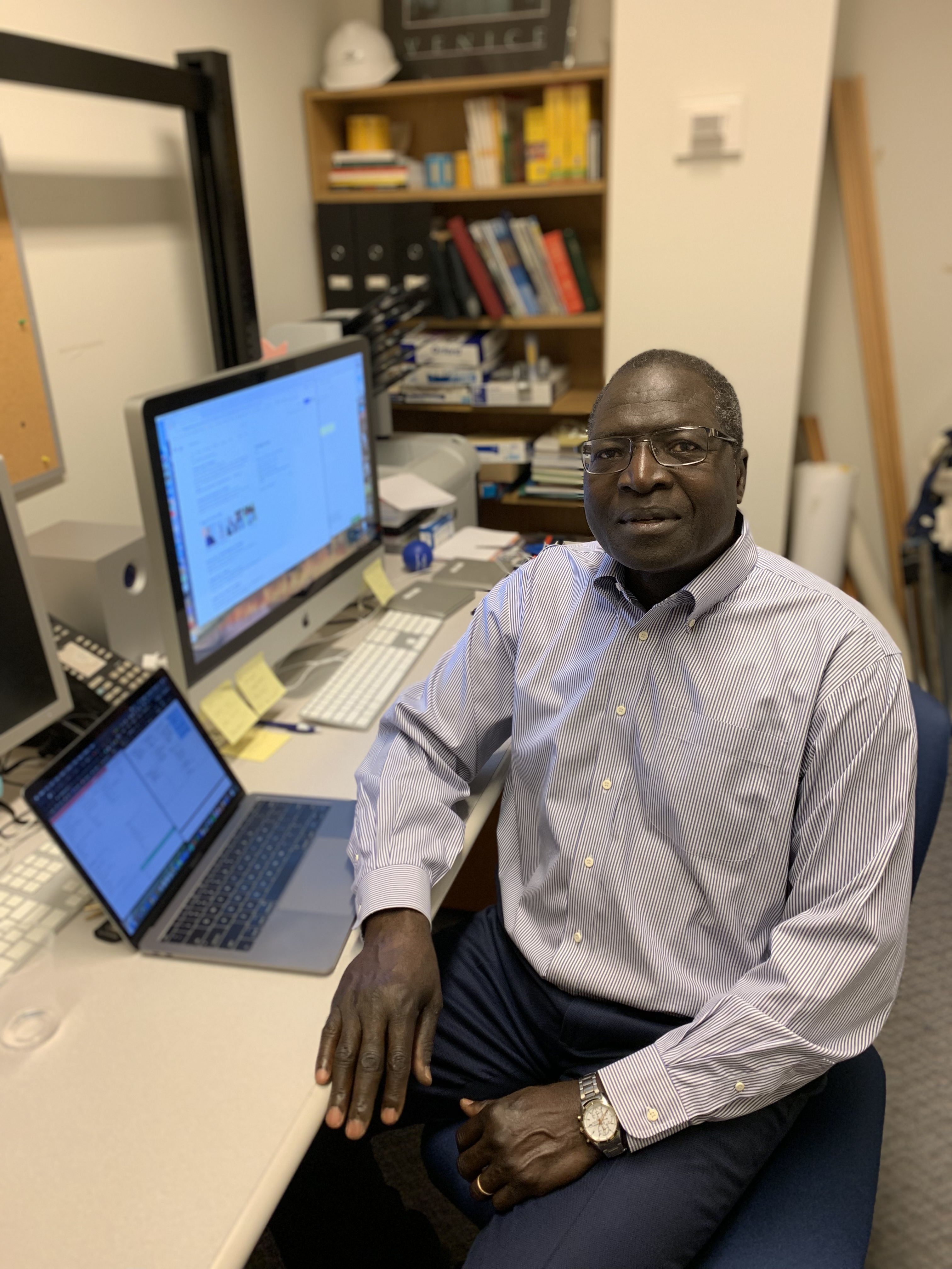 Professor and Writer Amadou Koné, at Georgetown University on September 2019